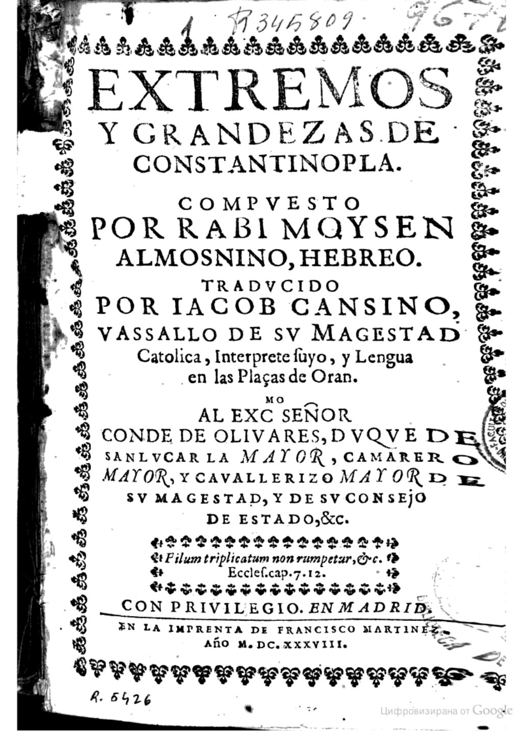 Extremos y grandezas de Constantinopla by Moses Almosnino